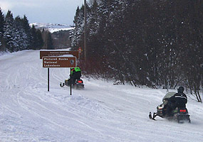 Snowmobiling along Alger County Road H-58